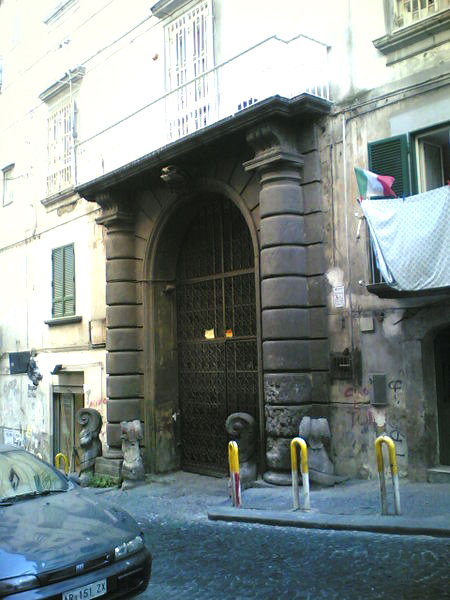 Palace of Magnocavallo